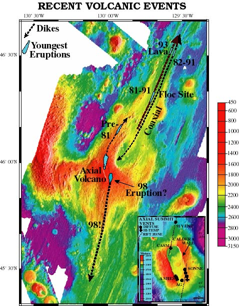 Full bathymetric of Axial Seamount.